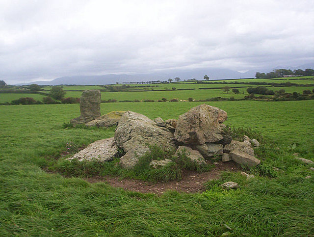 Hendrefor Burial Chamber The sad remains of a once impressive monument.